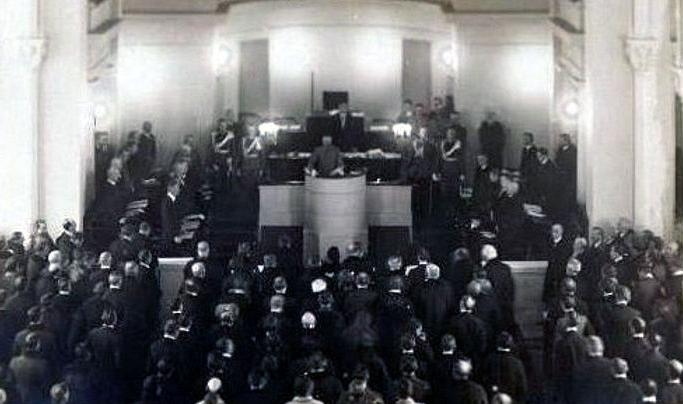 Józef Piłsudski opening first session of Polish Sejm 10.02.1919.